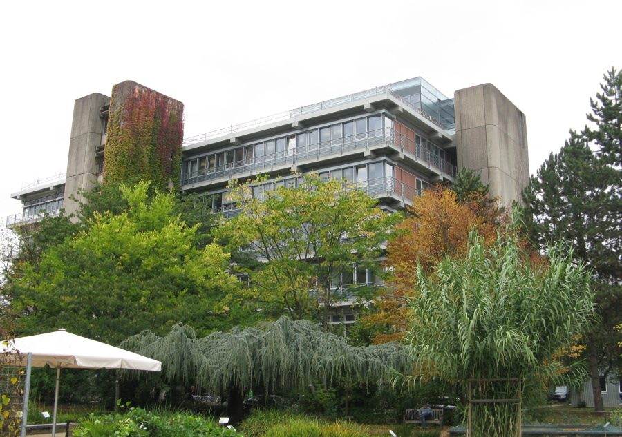 View at building INF-364 from the south. Campus Neuenheimer Feld, University Heidelberg. Standing near the pond in the botanical garden.